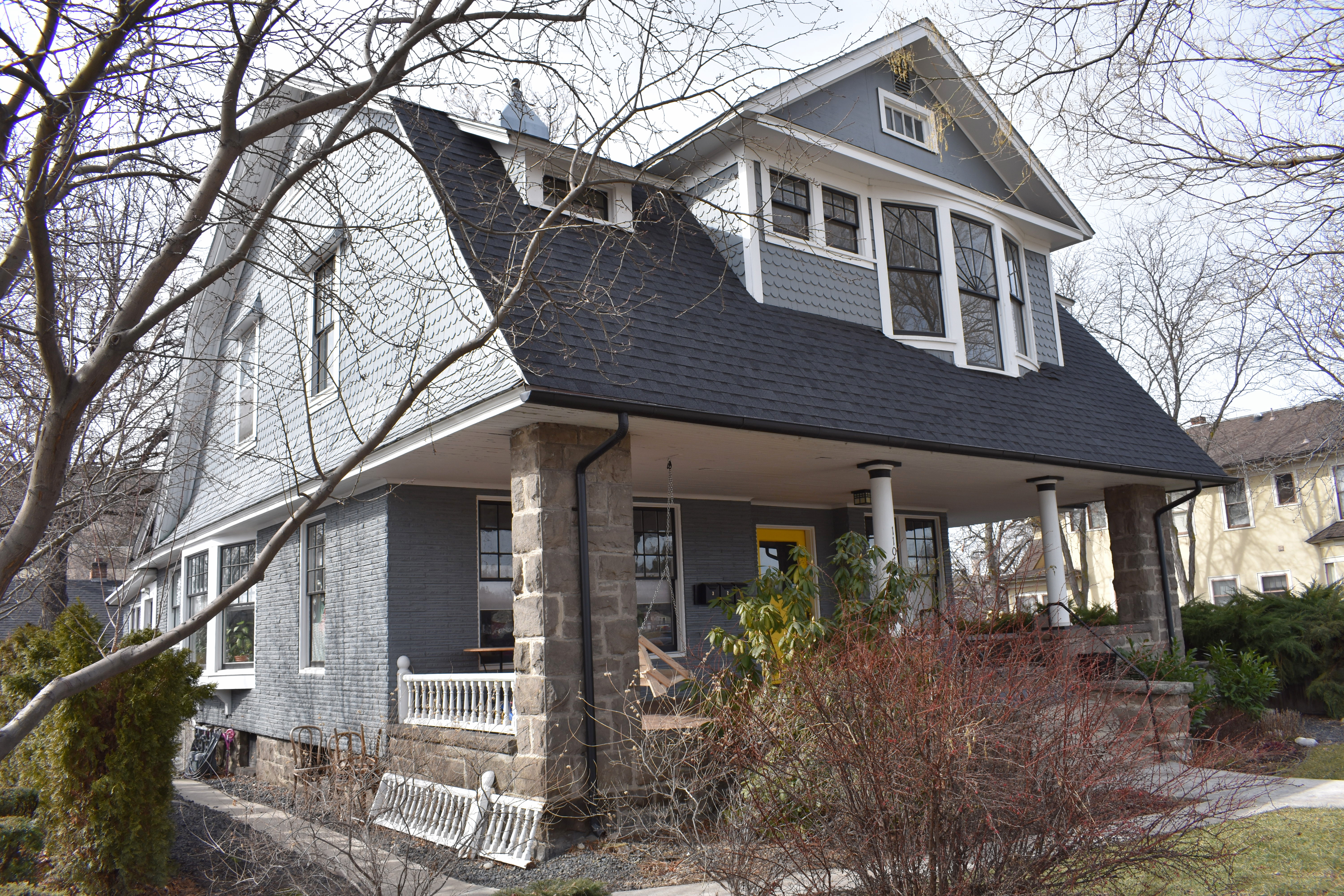 The Dr. James Davies House in Boise, Idaho, was designed by Tourtellotte & Co. and is listed on the National Register of Historic Places. The house also is part of the Fort Street Historic District.